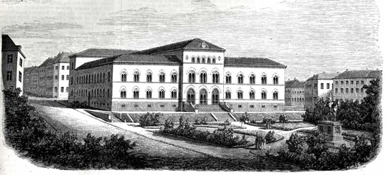 Christian Hansen's rejected propsal for the Parliament of Norway Building in the 1856 competition.